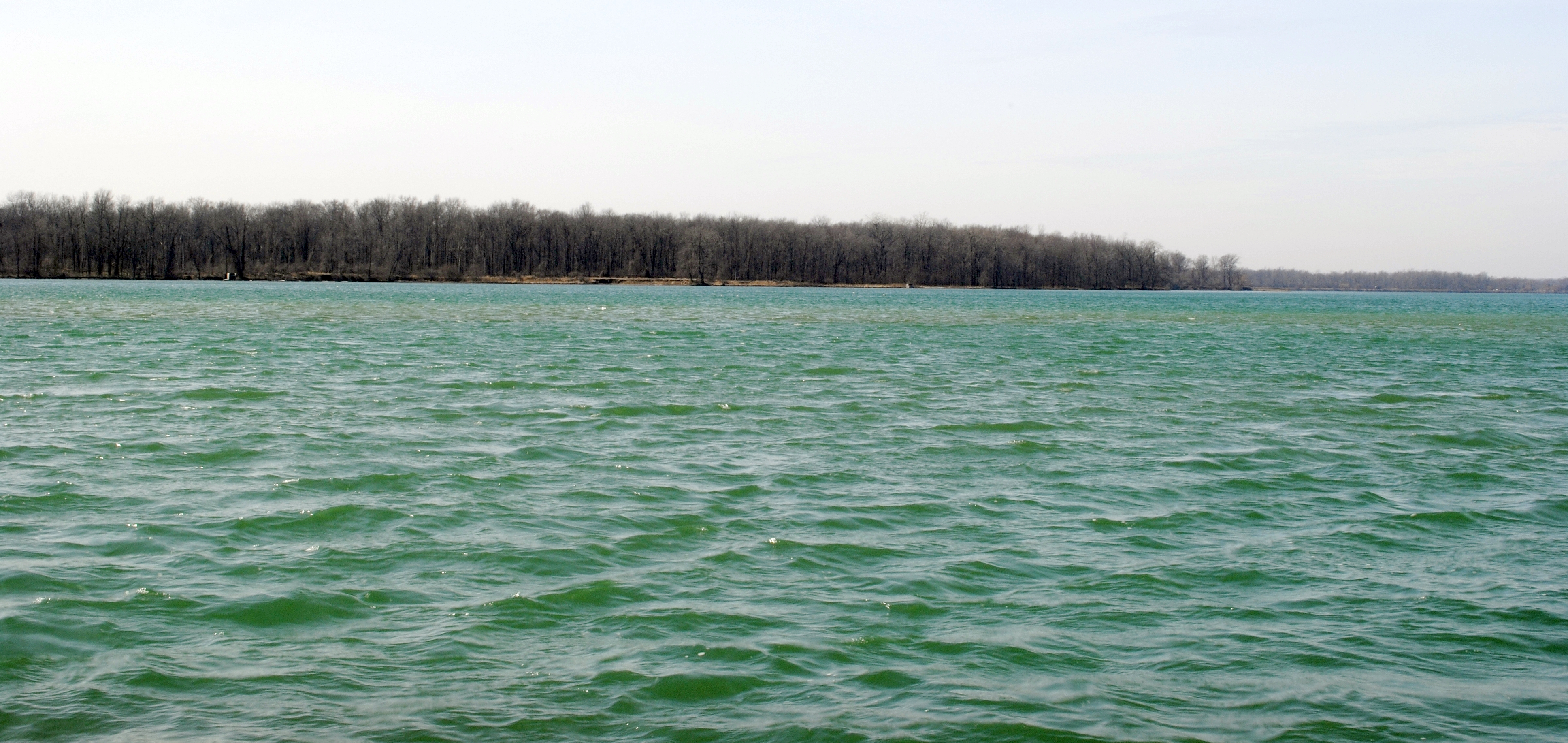 Navy Island, Ontario, from Buckhorn Island State Park, Erie County, New York.